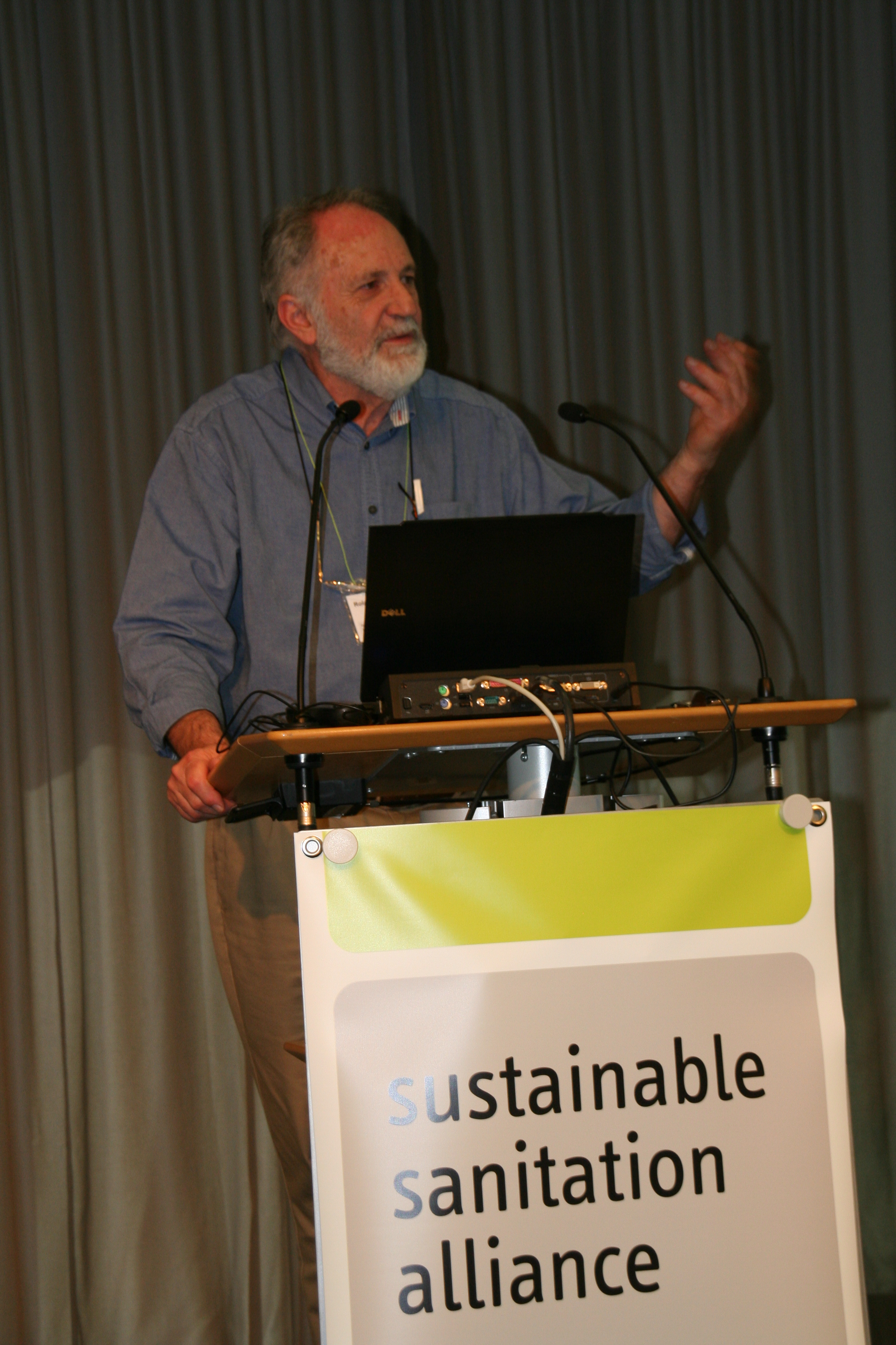 SuSanA core group and key stakeholder meeting in Eschborn, Germany (18th-20th of April 2013)